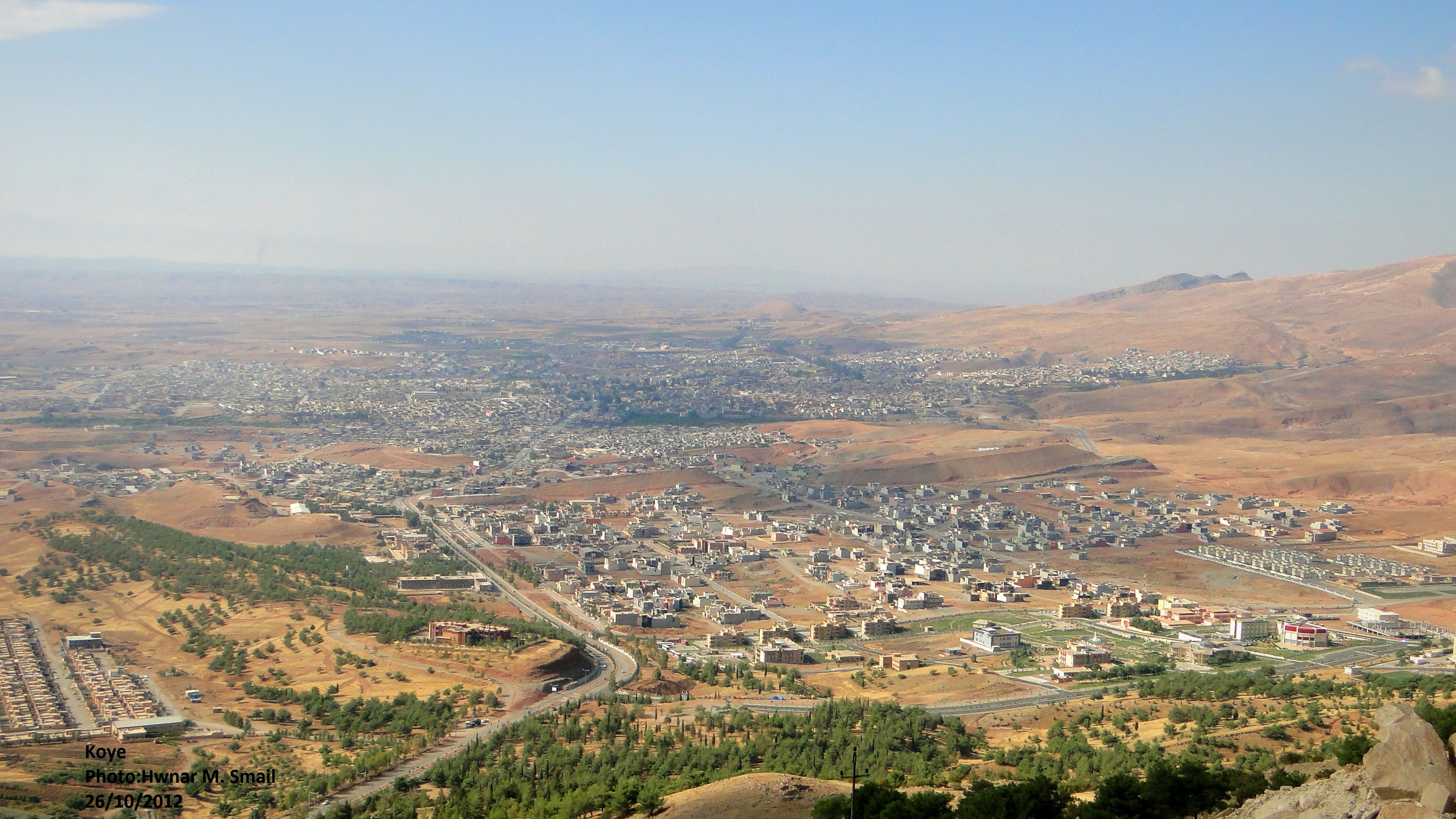 Koye is one of Kurdish cities